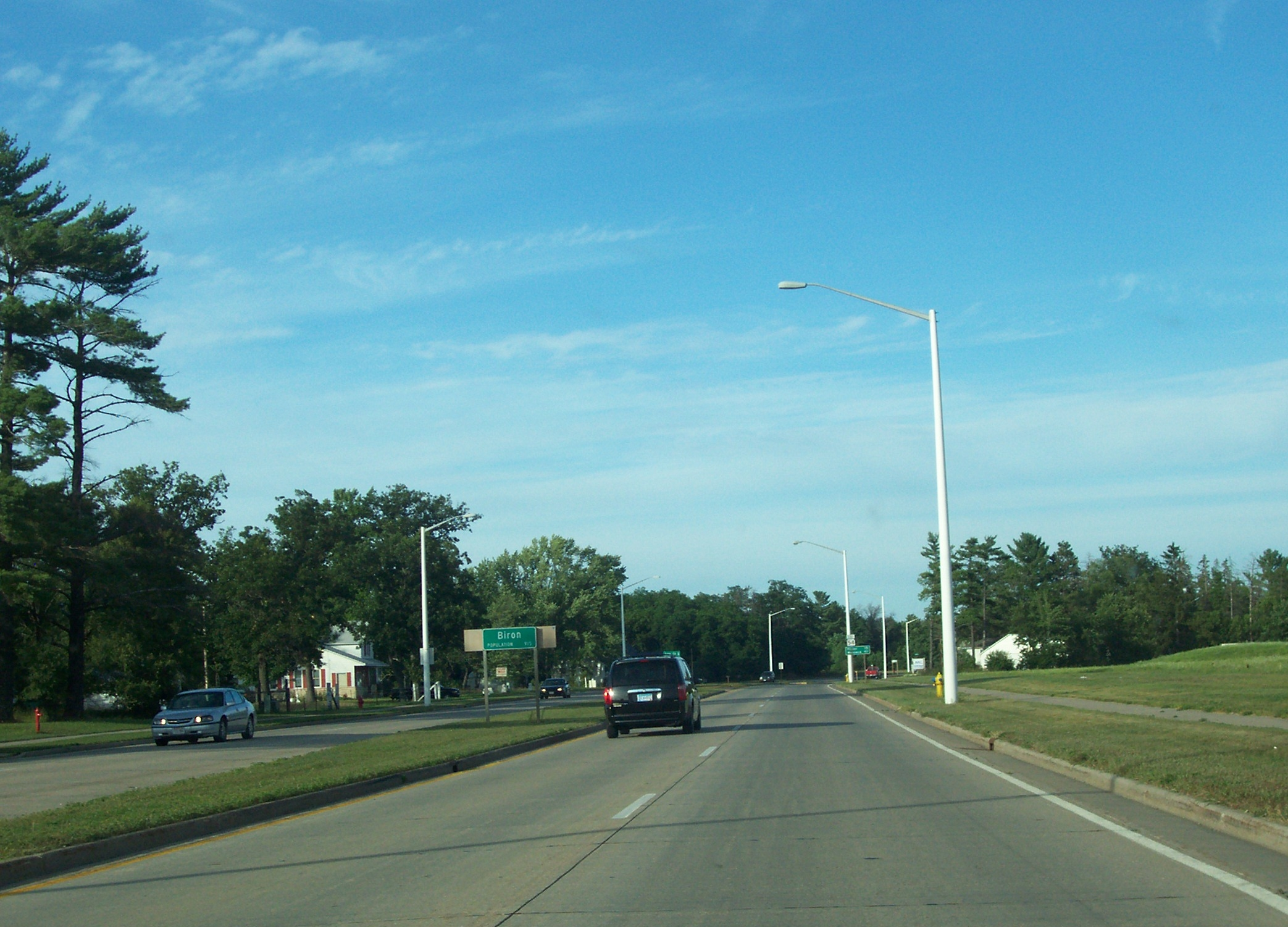 The population sign for Biron, Wisconsin while traveling east on Wisconsin Highway 54.